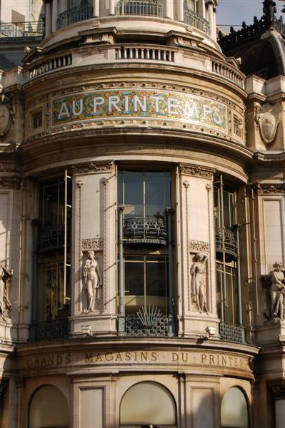 "Le Printemps" (=Spring in french) department store in Paris on Blvd. Haussman